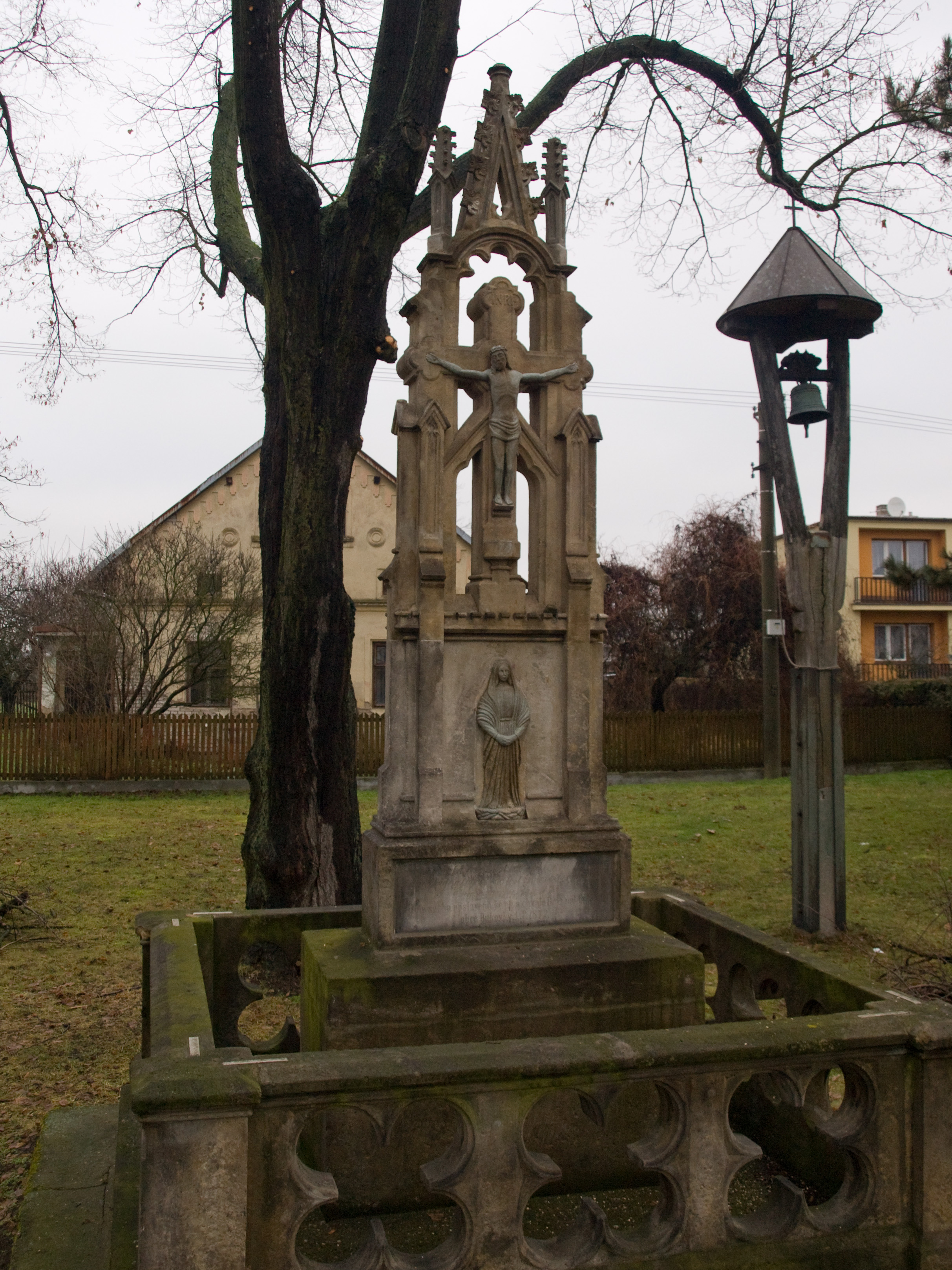 Statue, Bukovka, Pardubice District, Pardubice Region